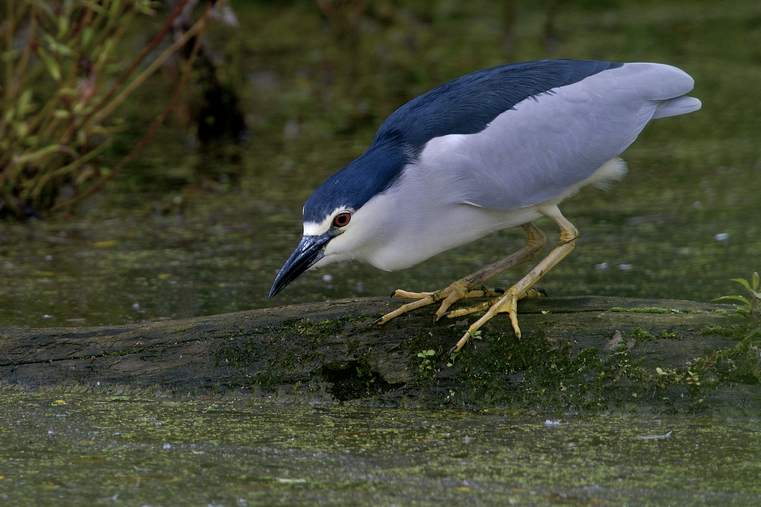 Black-crowned Night Heron in the Pleidelsheimer Wiesental nature preserve